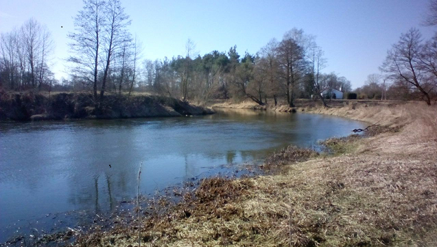 The bend of the river Wkra at Sochocin 2015